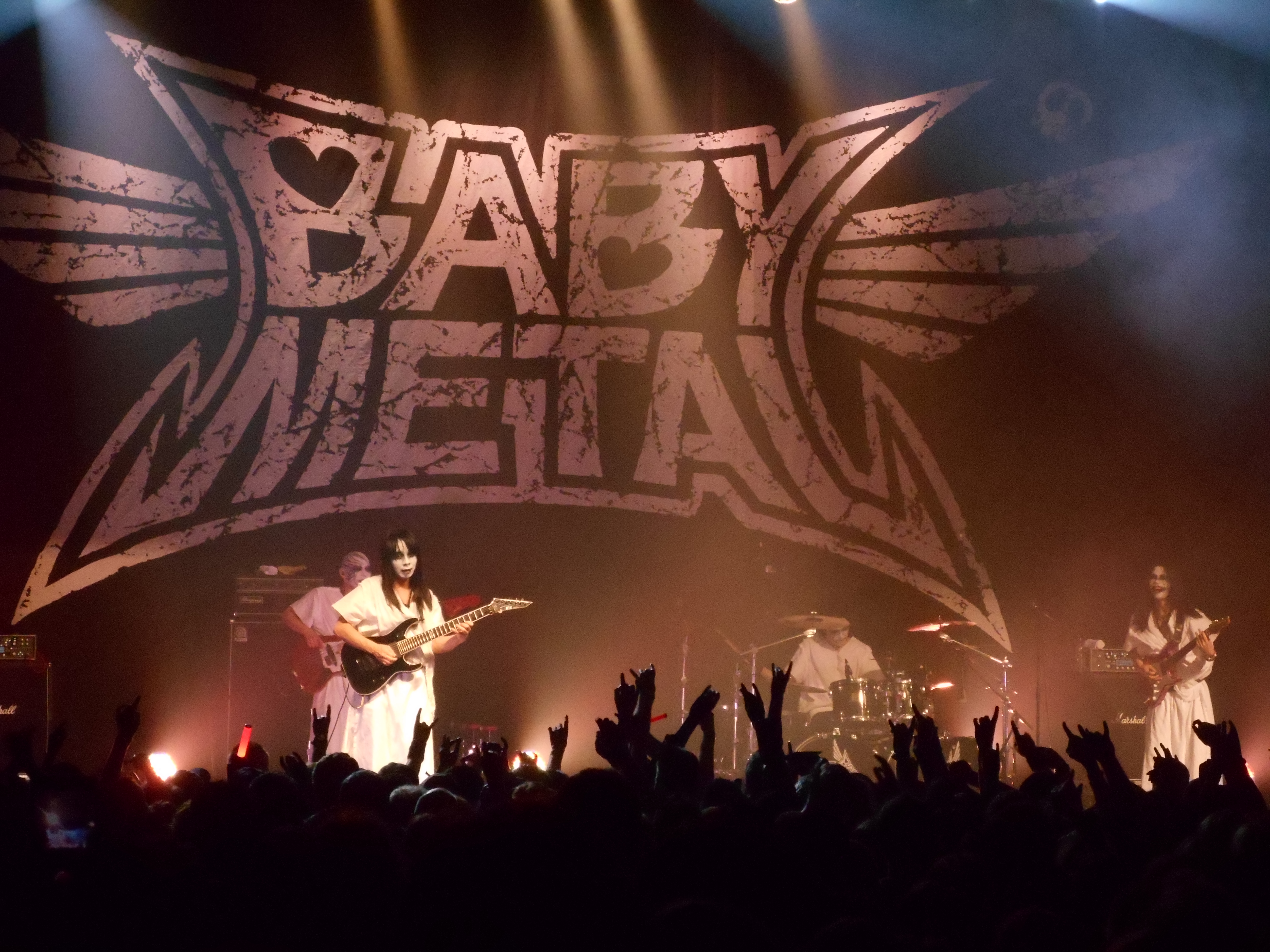 Babymetal's backing band "Kami Band" performance at Danforth Music Hall on May 12, 2015.